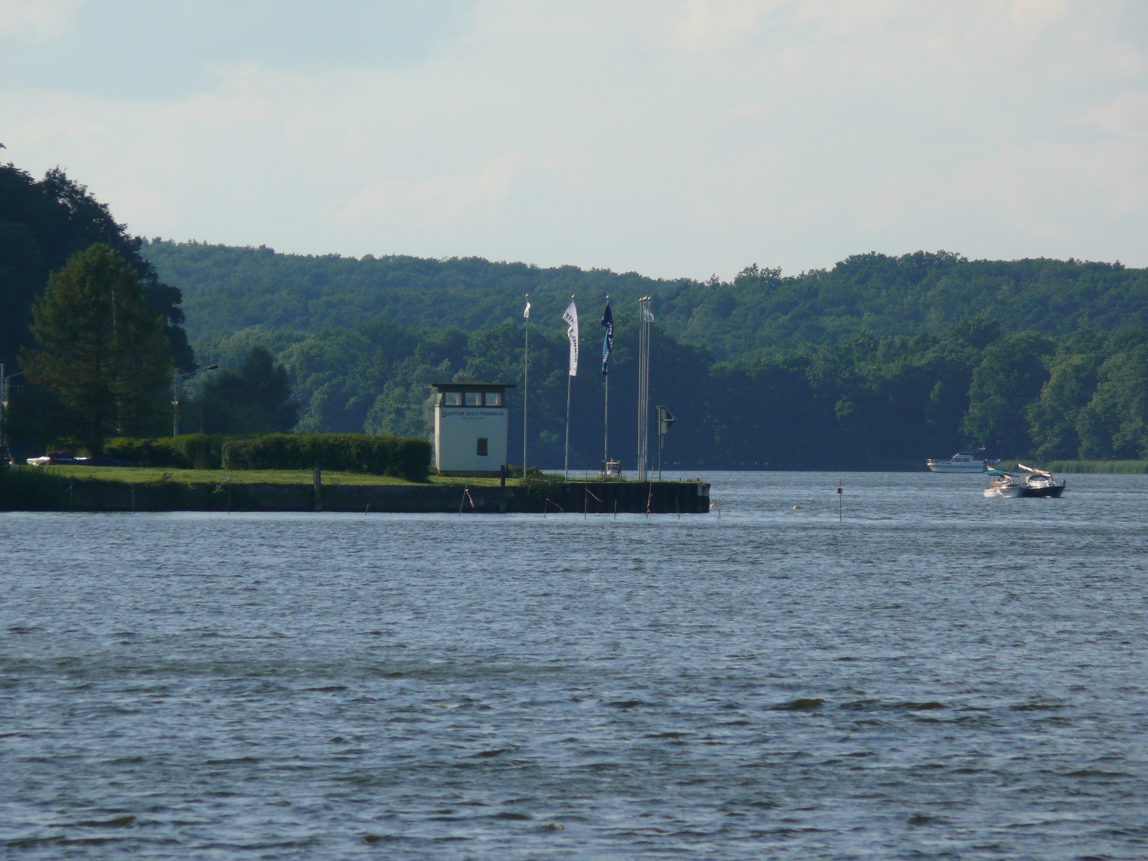 Wachturm, 2007, Potsdam, Bertinistrasse